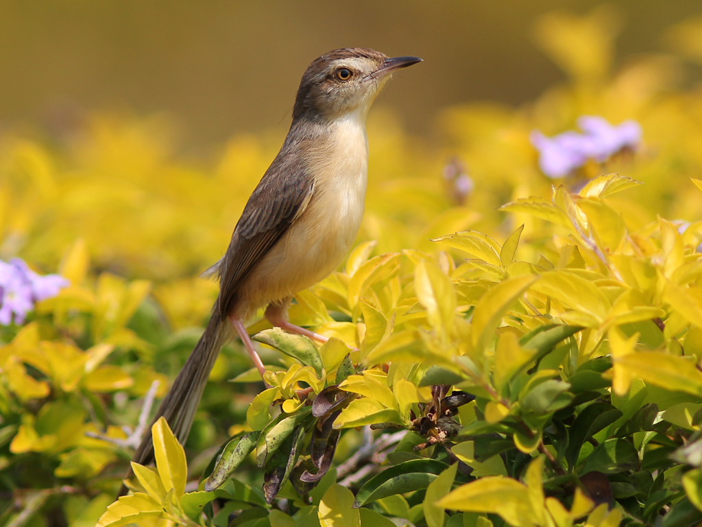 Plain Prinia Prinia inornata, Kerala. These 13-14 cm long warblers have short rounded wings, a longish tail, strong legs and a short black bill. In breeding plumage, adults are grey-brown above, with a short white supercilium and rufous fringes on the closed wings. Underparts are whitish-buff. The sexes are identical.